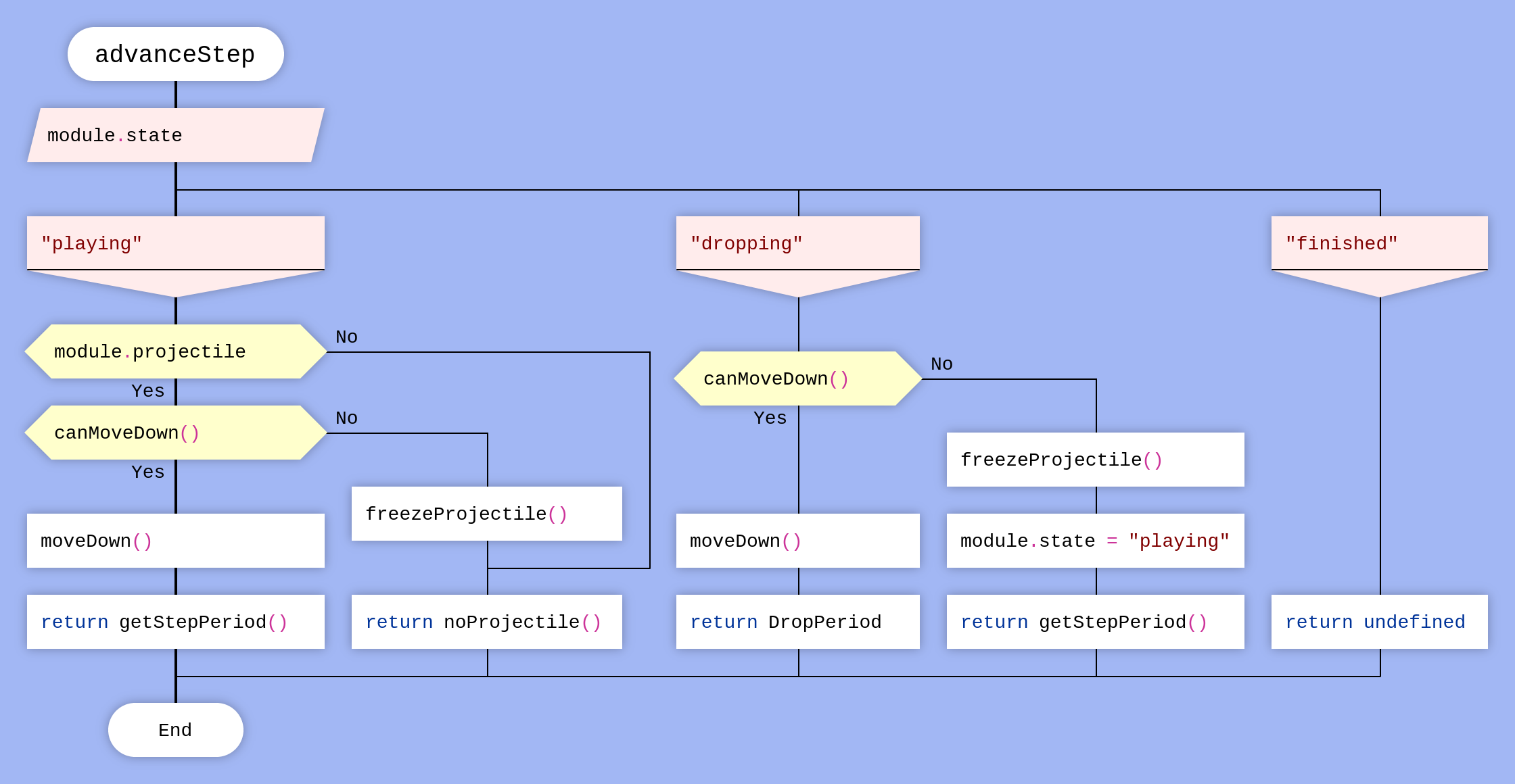 An example of a program in DRAKON-JavaScript that shows the core logic of the Tetris game.